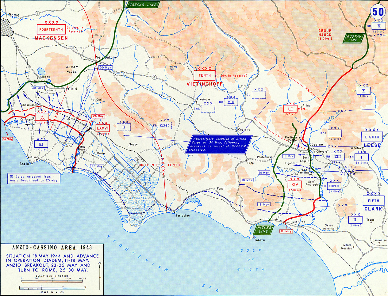 The Allied breakout from Anzio and advance from the Gustav Line May 1944. Area of operations, late May 1944.